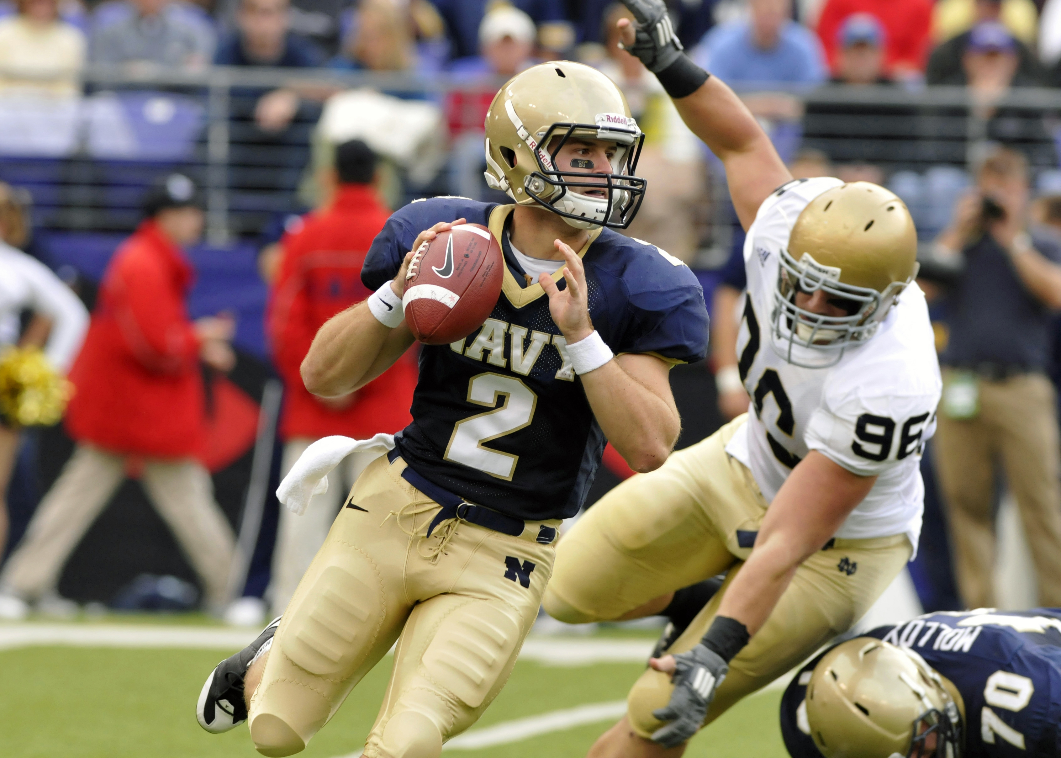 Baltimore, Md. (Nov. 15, 2008) Navy quarterback Jarod Bryant (#2), from Hoover, Alabama, eludes Notre Dame defensive end Pat Kuntz (#96) during a first quarter pass attempt in the Saturday, Nov. 15, 2008 college football game between the U.S. Naval Academy and the University of Notre Dame. The Midshipman fell short in a fourth quarter comeback to the Fighting Irish 27-21 in front of a capacity crowd at M&T Bank stadium. (U.S. Navy photo by Mass Communication Specialist 2nd Class Tommy Gilligan/Released)